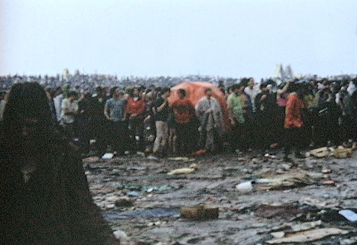 The audience at Woodstock waits for the rain to end.